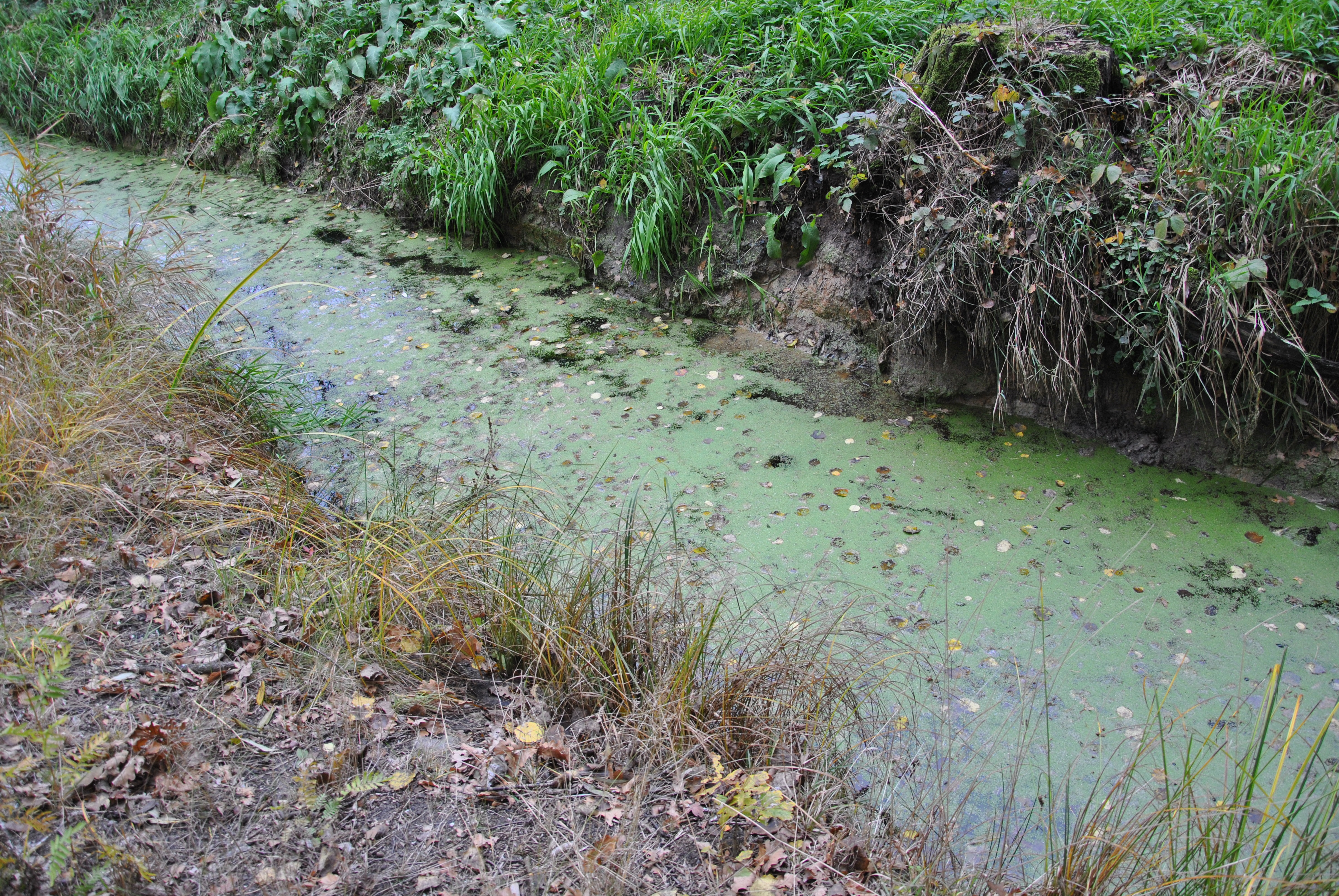 Mokřady